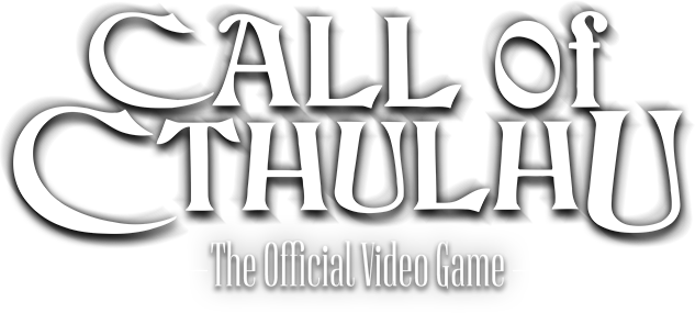 Call of Cthulhu logo 2017